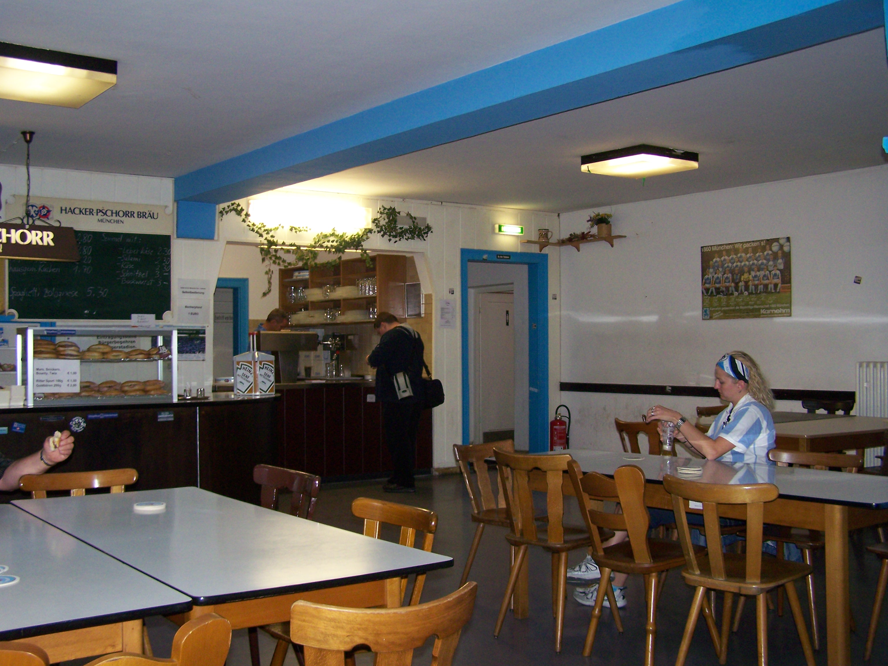 pub in the Städtische Stadion an der Grünwalder Straße in Munich